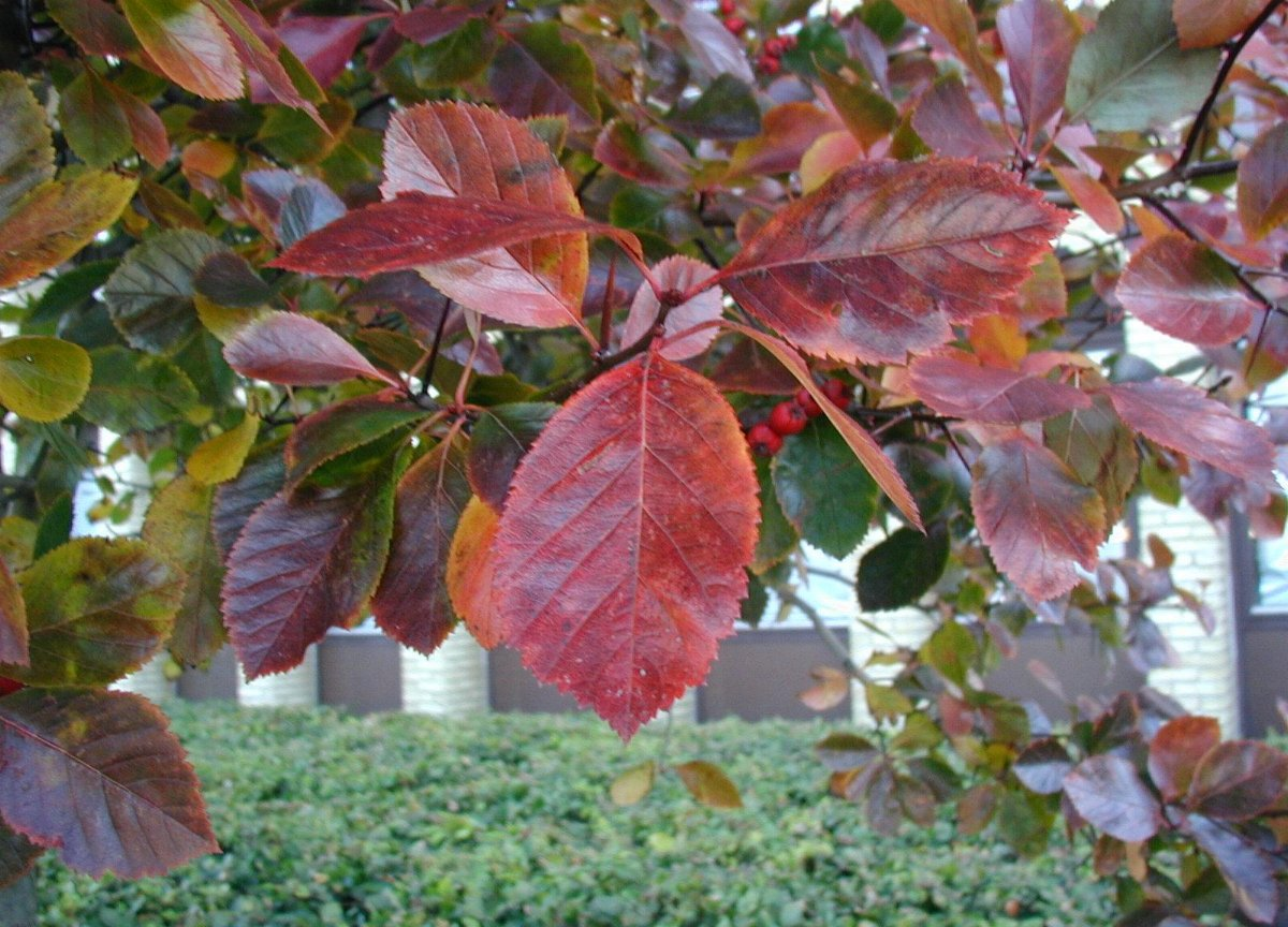 Description: Crataegus crus-galli, autumn-coloured leaves Source: Own photo, taken in Jutland, Oct 2003.